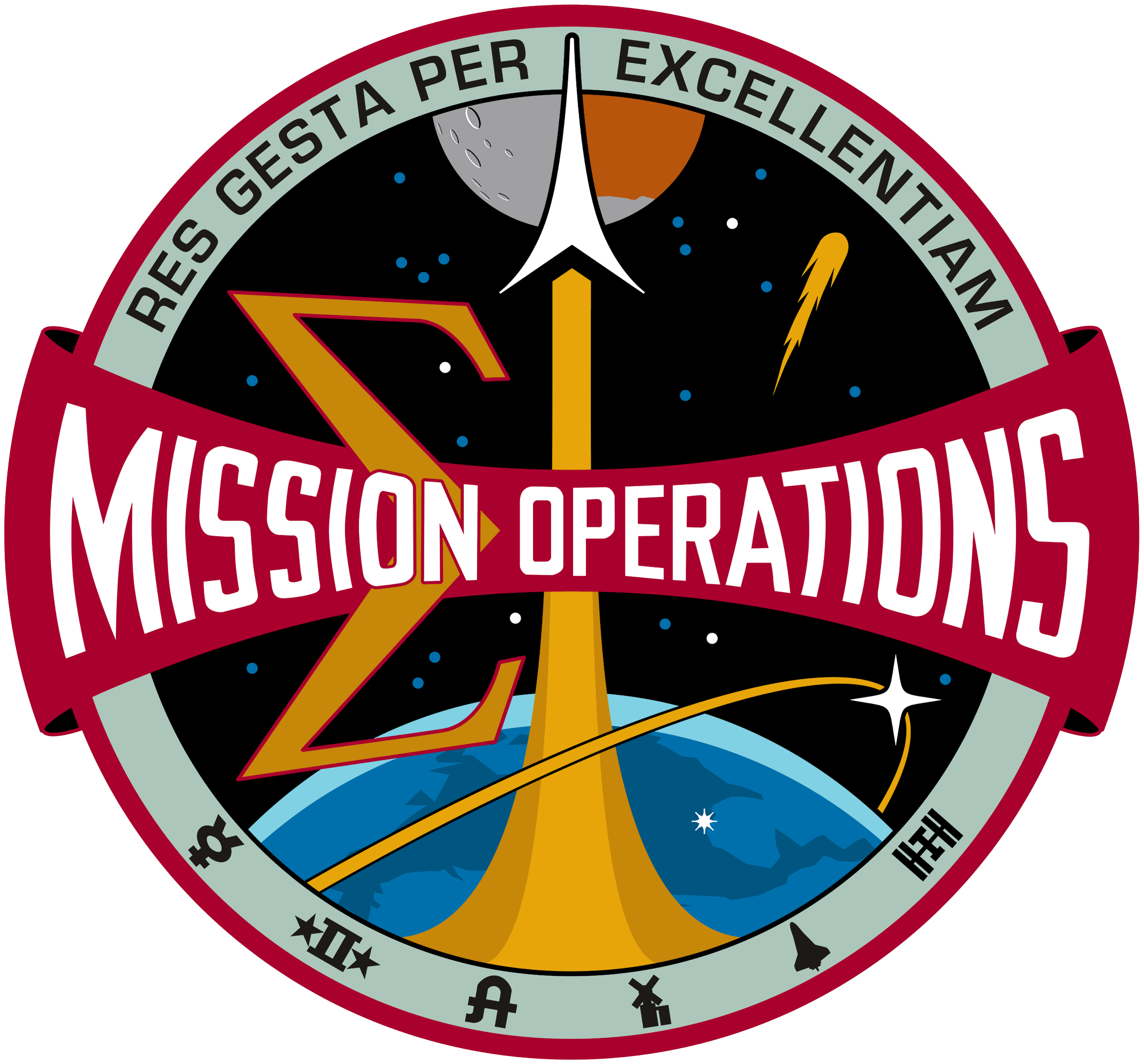 Mission Operations Directorate (MOD) emblem RES GESTA PER EXCELLENTIAM means Achieve through Excellence below are the symbols for NASA's human spaceflight programs: Project Mercury, Project Gemini, Apollo program, Skylab, Space Shuttle program and the International Space Station program